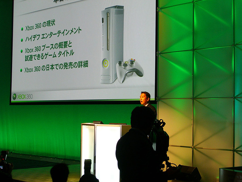 Press Conference 071